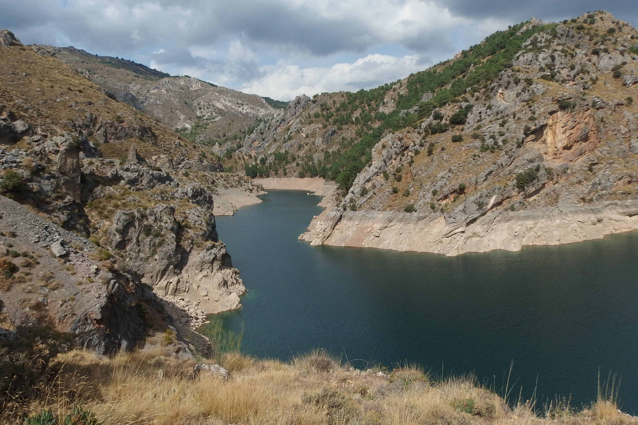 Quéntar Reservoir